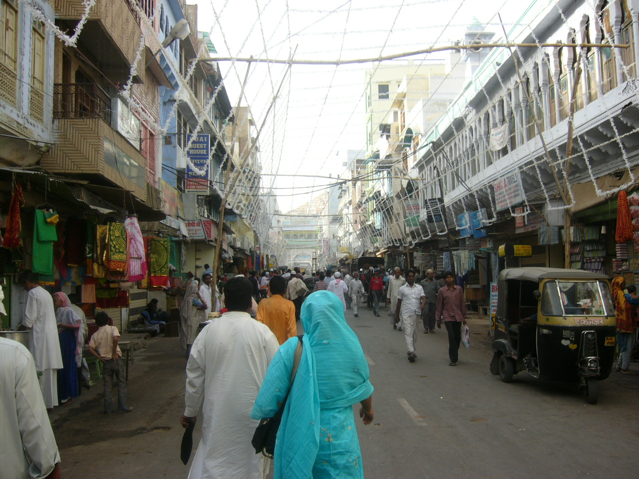 Dargah of Sufi saint Moinuddin Chishti Ajmer India